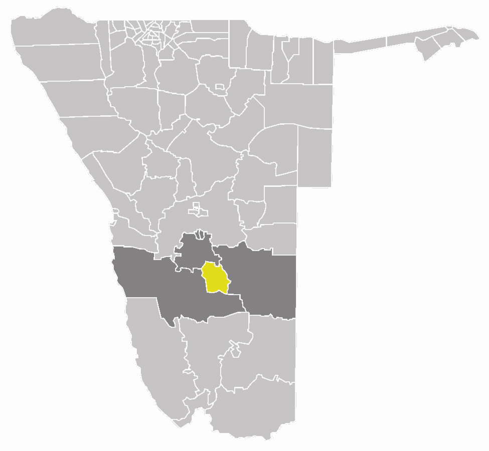 map of the Mariental Urban constituency within the Hardap region, Namibia